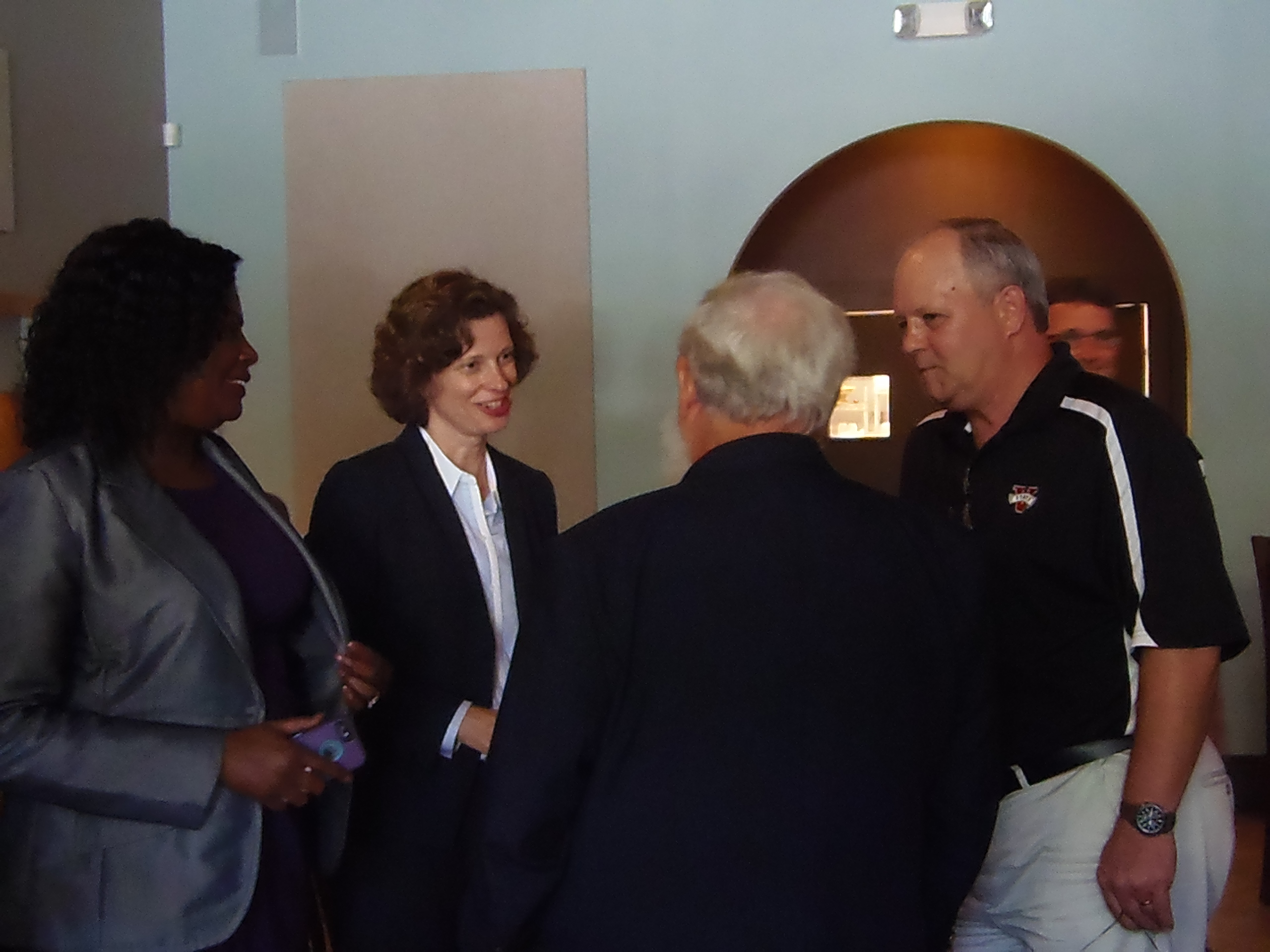 During her campaign for the United States Senate election in Georgia, 2014, Michelle Nunn visits Valdosta, Georgia. Here she talks to Valdosta Councilman Tim Carroll and Valdosta State University Professor Dick Saeger.